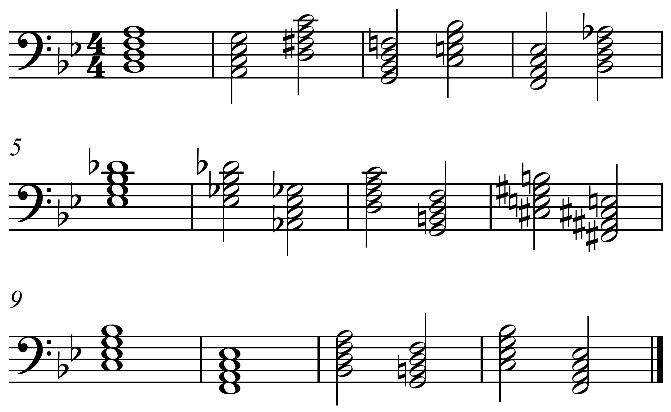 Bird Blues progression in B♭: BbMaj7 Ι Amin7b5 D7 Ι Gmin7 C7 Ι Fmin7 Bb7 Ι Eb7 Ι Ebmin7 Ab7 Ι Dmin7 G7 Ι C#min7 F#7 Ι Cmin7 Ι F7 Ι BbMaj7 G7 Ι Cmin7 F7 ΙΙ .